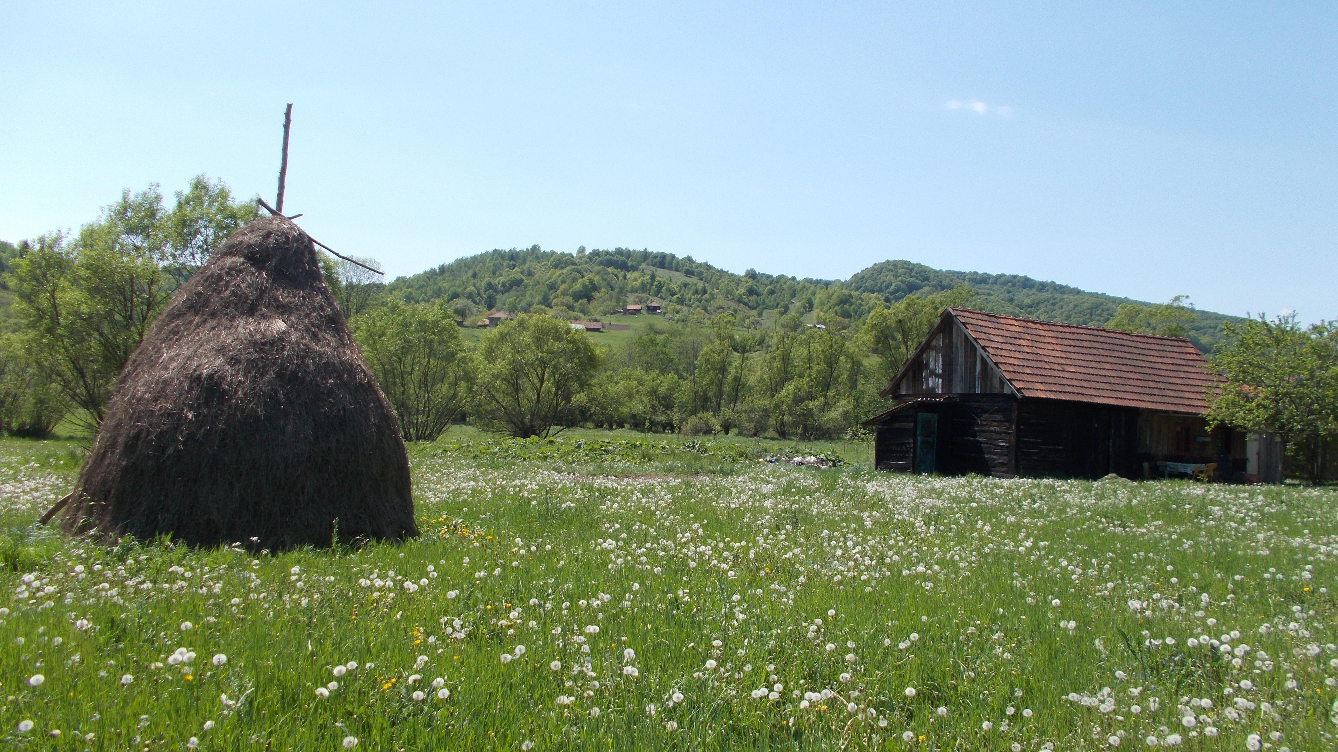 Lunca Cernii de Sus, Hunedoara County, Romania